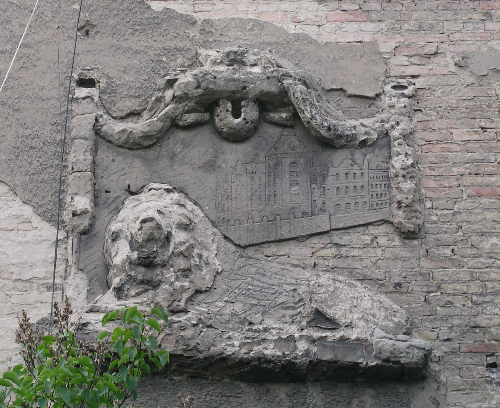 The house in the Konrad-Wolf-Street n° 14 (detail with lion).